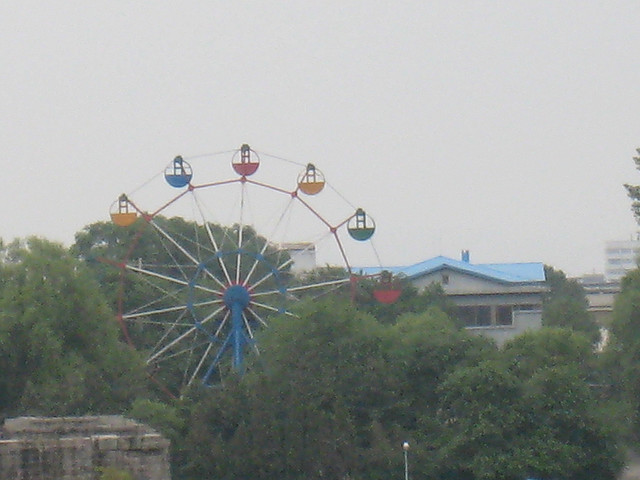 A little slice of Potemkin North Korea, as if to say that "Hey, its not so bad over here". The view is from the Broken Bridge in Dandong, China, across the Yalu River.